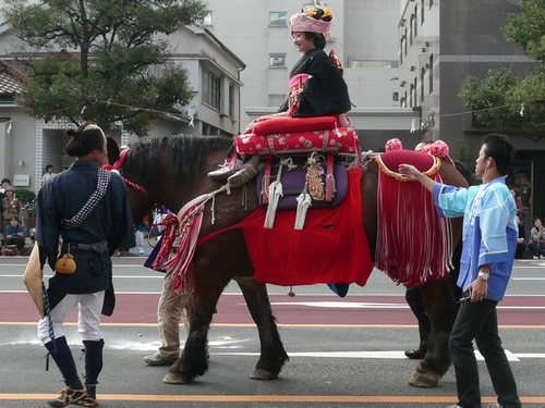 Miyazaki Shrine Grand Festival in 2008 - Shan-Shan Horse.